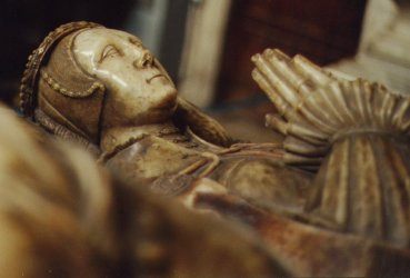 Tomb effigy of Eleanor Manners, Countess of Rutland.